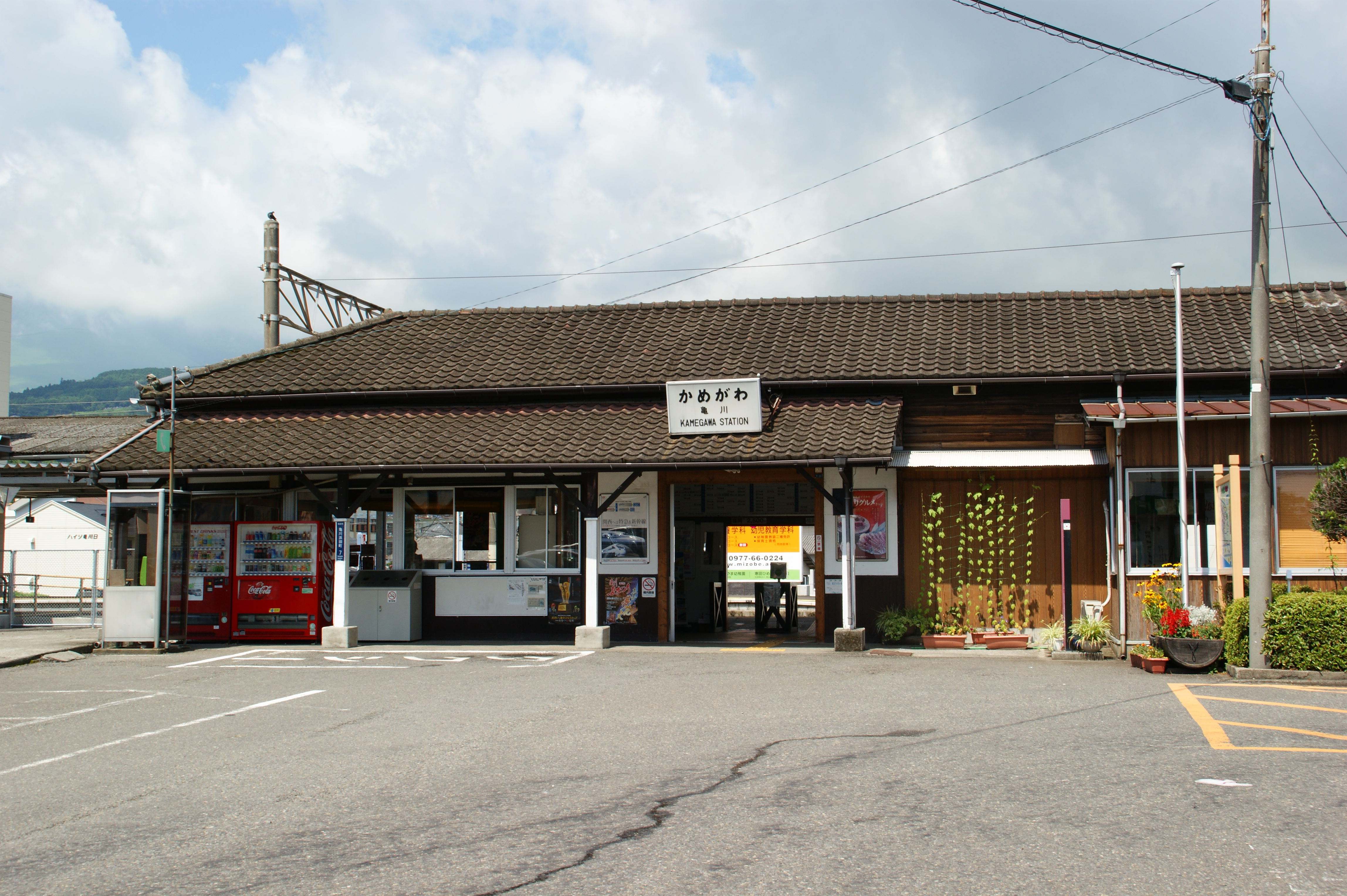 Kyushu Railway, Kamegawa Station.(Beppu City, Oita Prefecture, Japan)